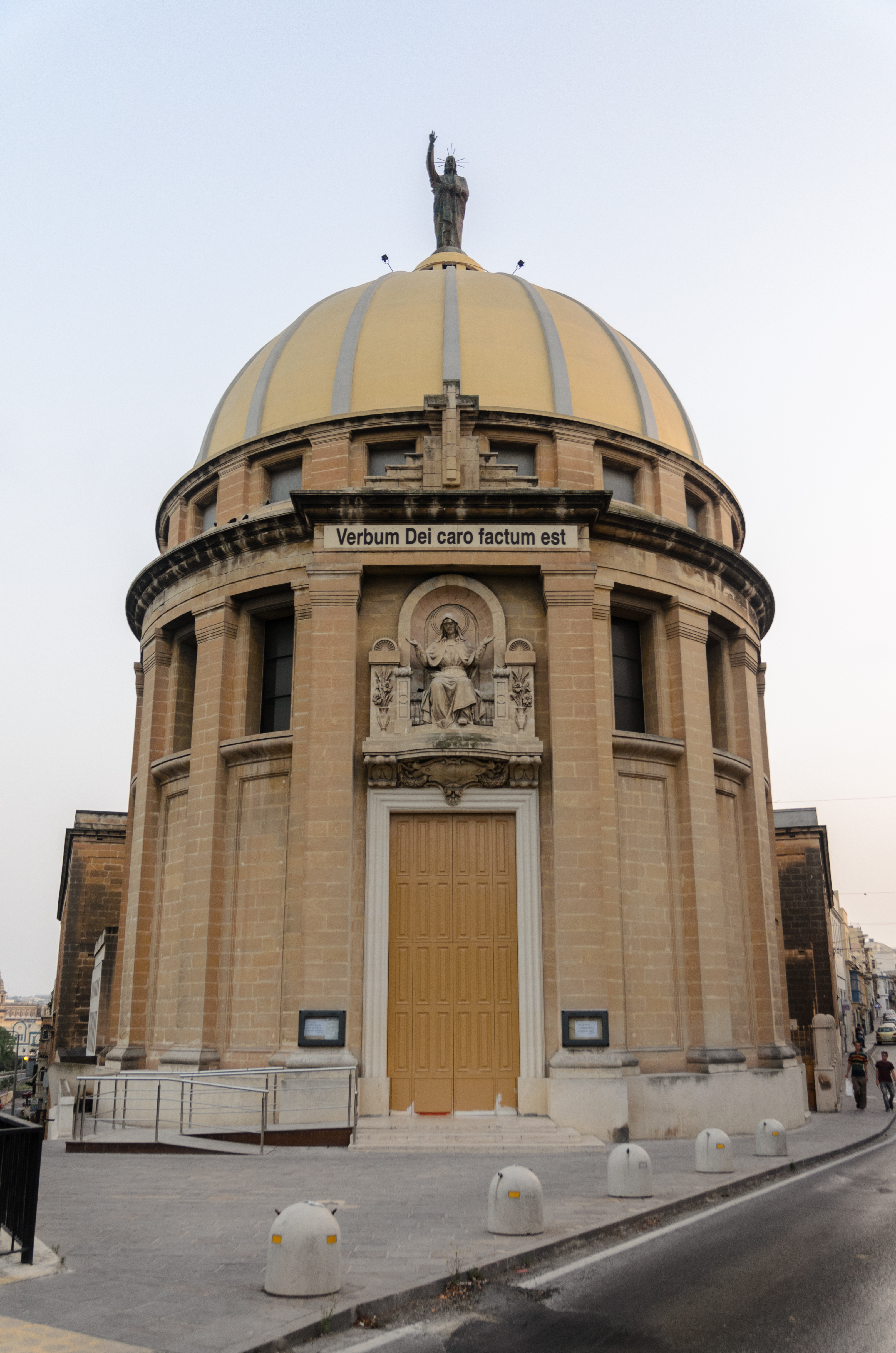 Our Lady of the Miraculous Medal Chapel in Ħamrun, Malta